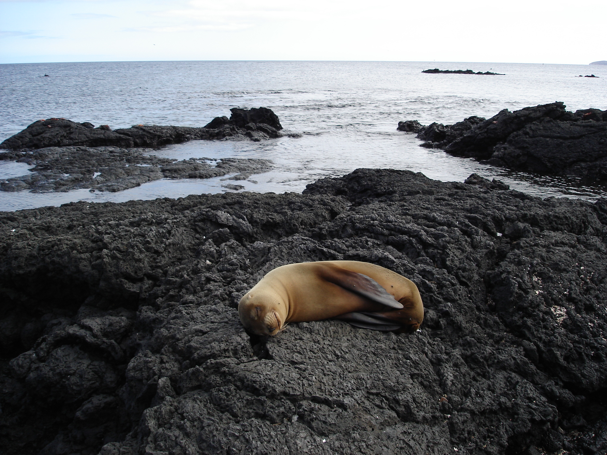 Galápagos Fur Seal (Arctocephalus galapagoensis)